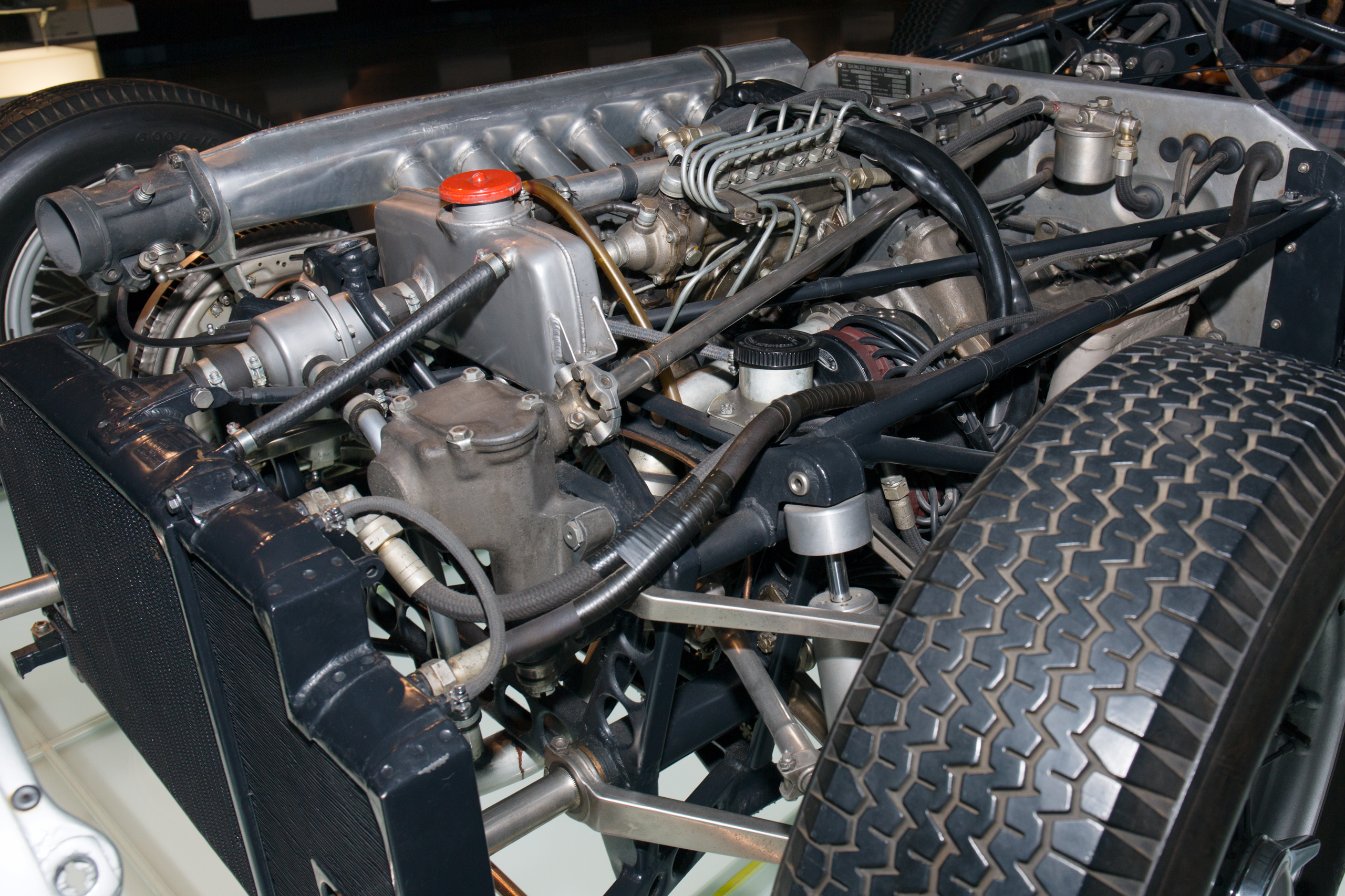 Mercedes-Benz W196R (exploded view)